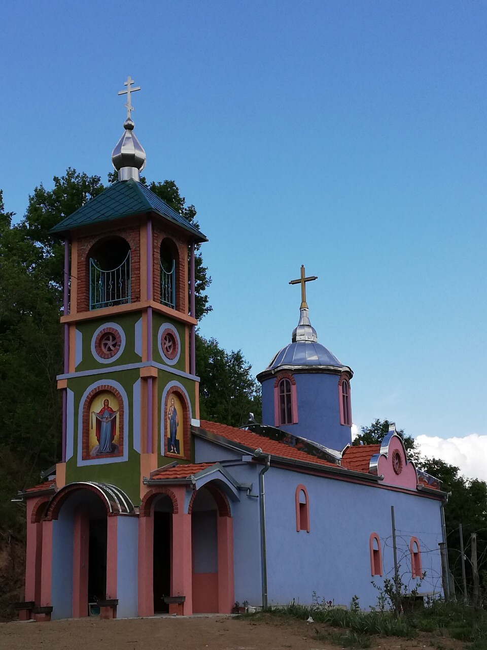 Monasterie Veta (Bela Palanka), Serbia